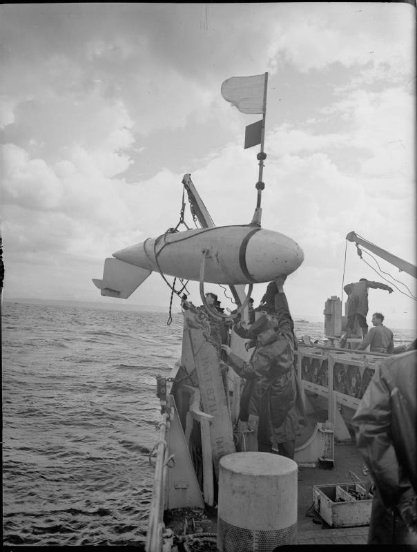 The Royal Navy during the Second World War Minesweepers hard at work to make seas safe again; the float is clear of the water after heaving in the wire at the end of the sweeping operation. The photograph was taken from on board a British Algerine class minesweeper operating with a mixed flotilla operating from the naval base HMS LOCHINVAR, Granton, Scotland. Note the depth charge racks next to the men in the foreground.